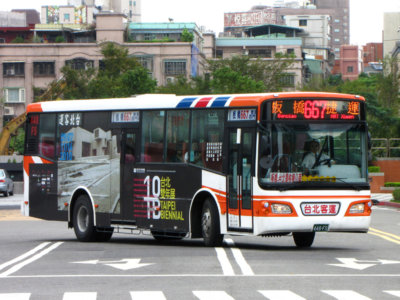 4FS